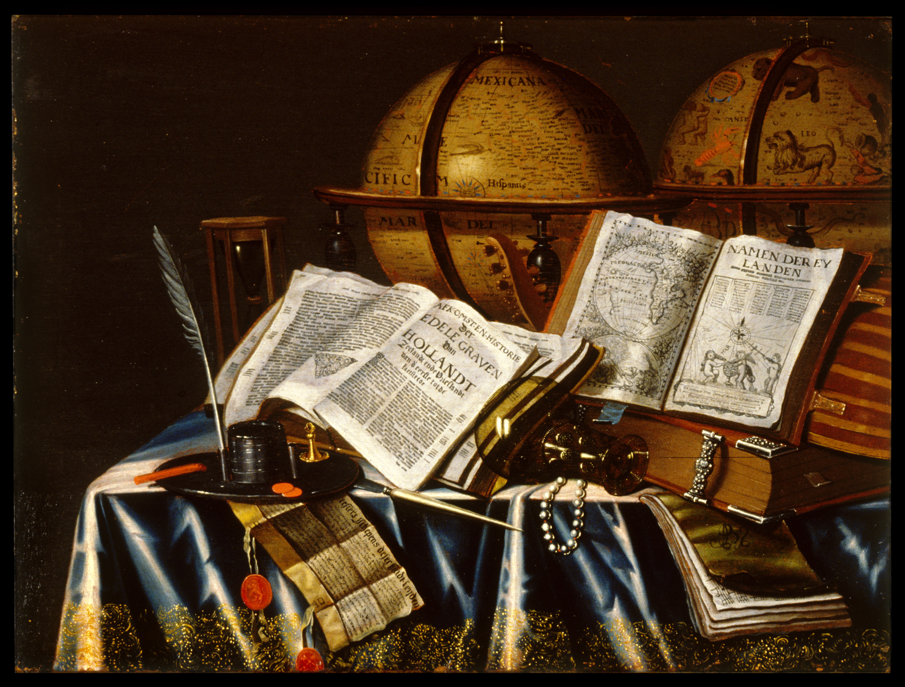 The Dutch "vanitas" (Latin for vanity) still life brings together the prevailing moral tone and an appreciation of everyday objects: how vain and insignificant are human concerns, and, therefore, how important it is to turn to God. The term comes from the biblical Book of Ecclesiastes (1:2) "Vanity of vanities! All is vanity." These objects symbolize transitory human achievement and satisfactions. The atlas is open to a map of the East Indies, source of many Dutch fortunes, and there is a city council document with an imposing seal. The other open book is a history of the early counts of Holland-whose lands were absorbed by the dukes of Burgundy in the 1400s. The lute, music, and inkstand represent creative endeavors, which, like satisfaction in beautiful objects such as pearls, are transitory pleasures. Even the heavens and the earth, represented by two globes, are effected by Time, whose relentless passage is marked by the hourglass. The little-known painter Adam Bernaert, who monogrammed this painting, often took his inspiration from paintings by the better-known Evert Collier. The present composition is closely based on a Collier composition signed and dated 1663, which in February 2008 was with the Dutch dealer Salomon Lilian.